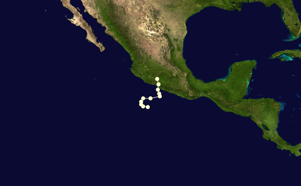 Hurricane Tara (1961) track. Uses the color scheme from the Saffir-Simpson Hurricane Scale.